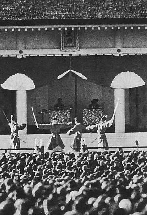 Celebrating Gagaku Music in Imperial 2600